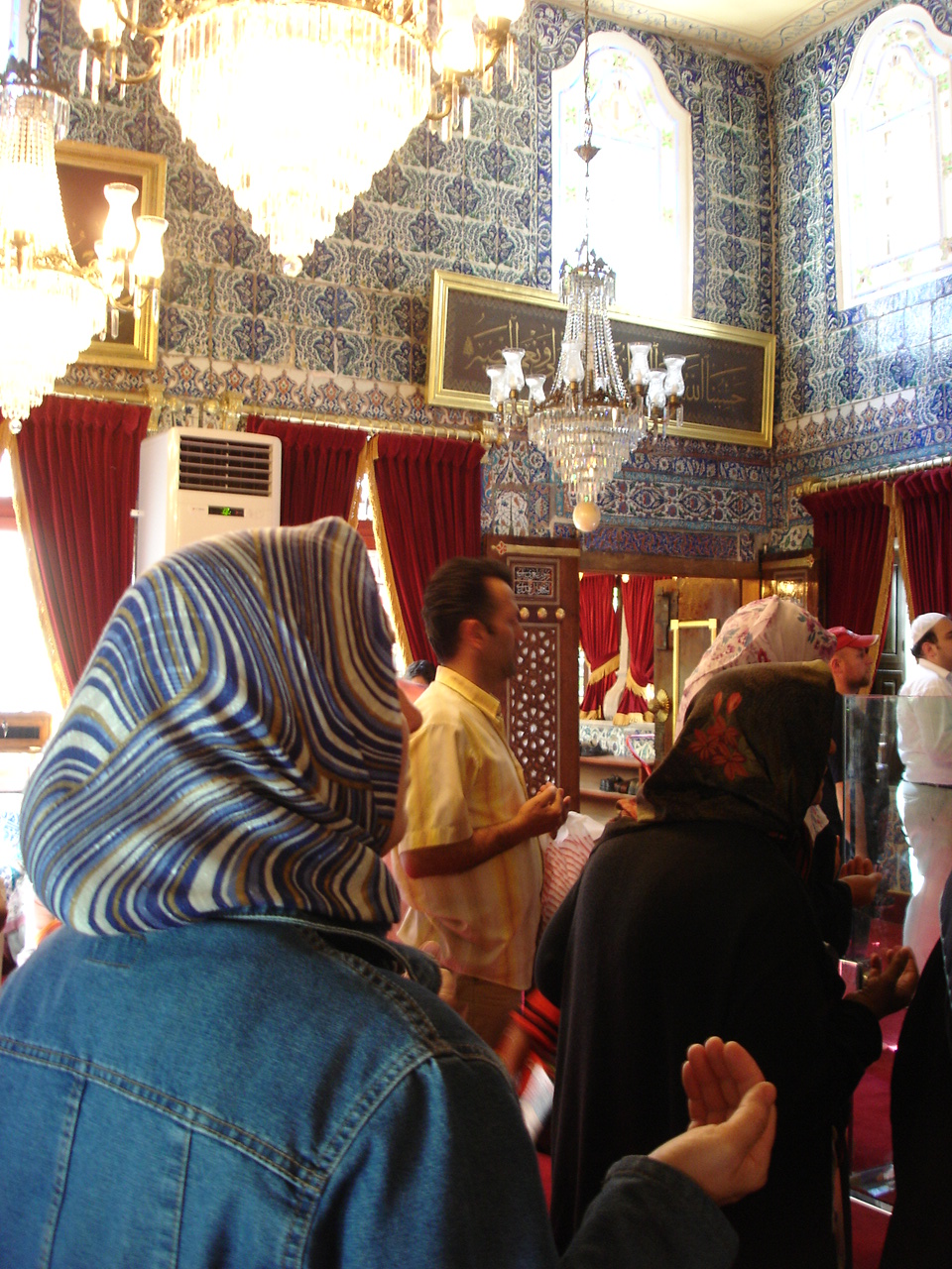 Istanbul - Muslim pilgrims pray inside the türbe (funerary mausoleum) in Eyüp. - Picture by: Giovanni Dall'Orto, May 30 2006.